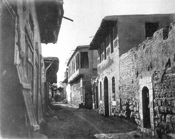 Straight Street, Damascus, Félix Bonfils, 1868